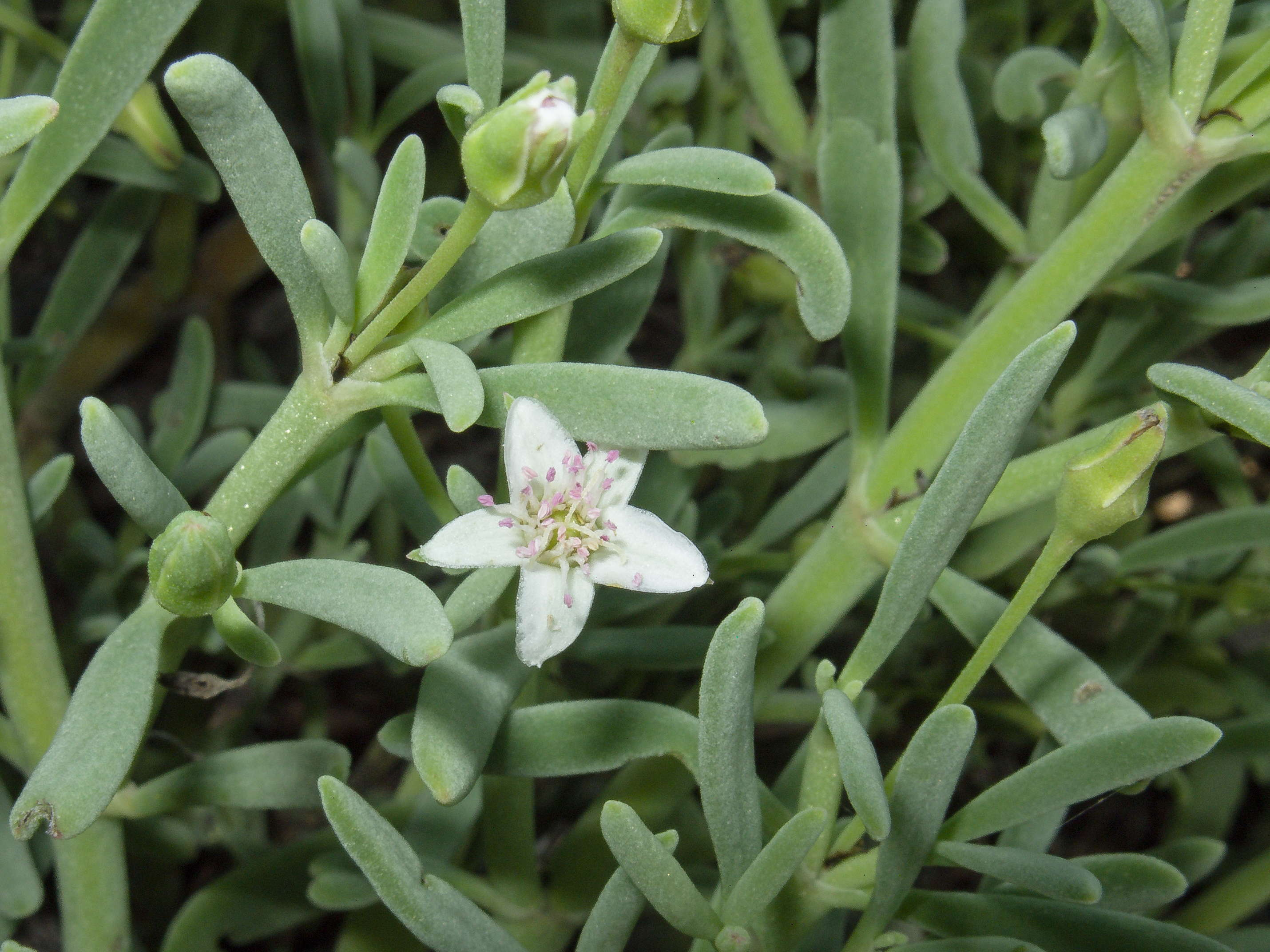 Sesuvium edmonstonei (Galápagos carpetweed), on South Plaza (Plaza Sur), Galápagos, 21 May 2015 – at the end of the rainy season, plants green